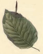 Stainton’s Natural History of the Tineina (1855–1873): Coleophora hemerobiella mined pear leaf